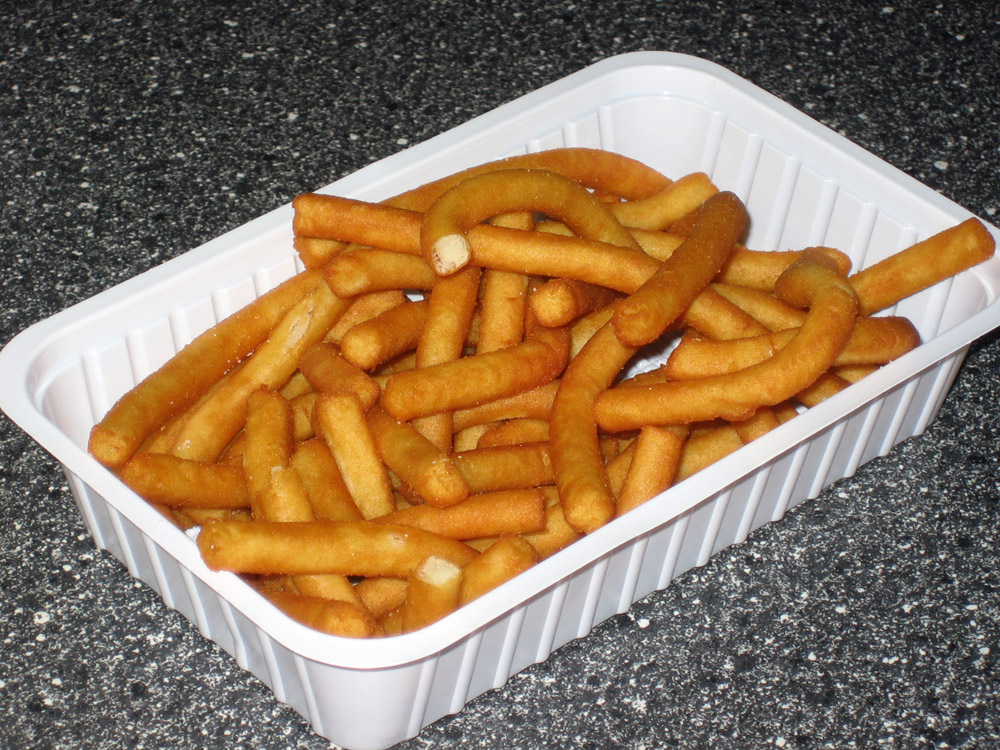 A portion of raspatat (Ras fries)